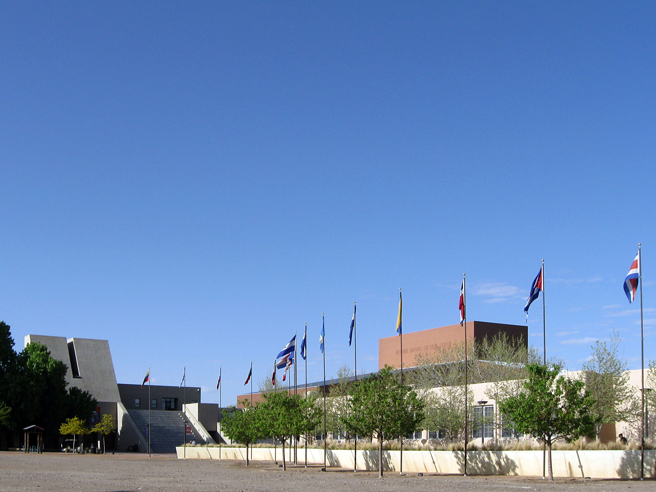 National Hispanic Cultural Center, a state museum located at 1701 4th Street SW in Albuquerque, New Mexico.